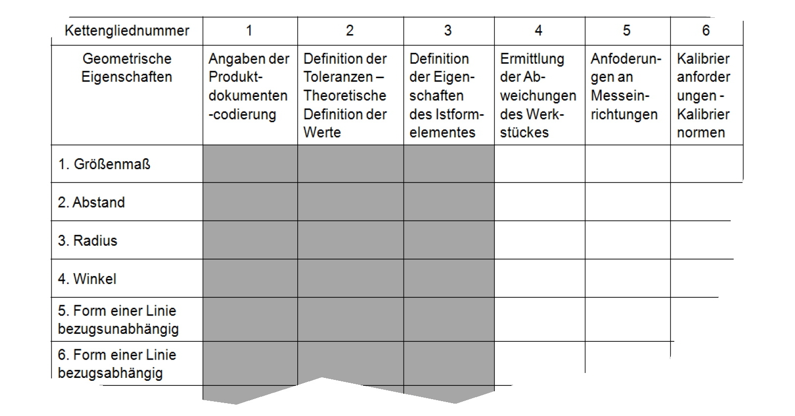 GPS-Chainelements